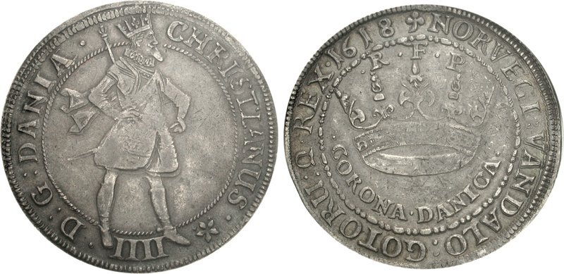 DENMARK. Christian IV. 1588-1648. AR 2 Kronen. Copenhagen mint. Dated 1618. CHRISTIANUS • (florette) IIII • D : G : DANIA •, crowned and armored king standing right, holding sword and scepter / NORVEGI : VANDALO : GOTORU : Q • REX • 1618, Danish crown; • R • F • P above, CORONA • DANICA • below. Hede 105A; Davenport 3516. In an NGC oversized slab graded XF 40, toned.